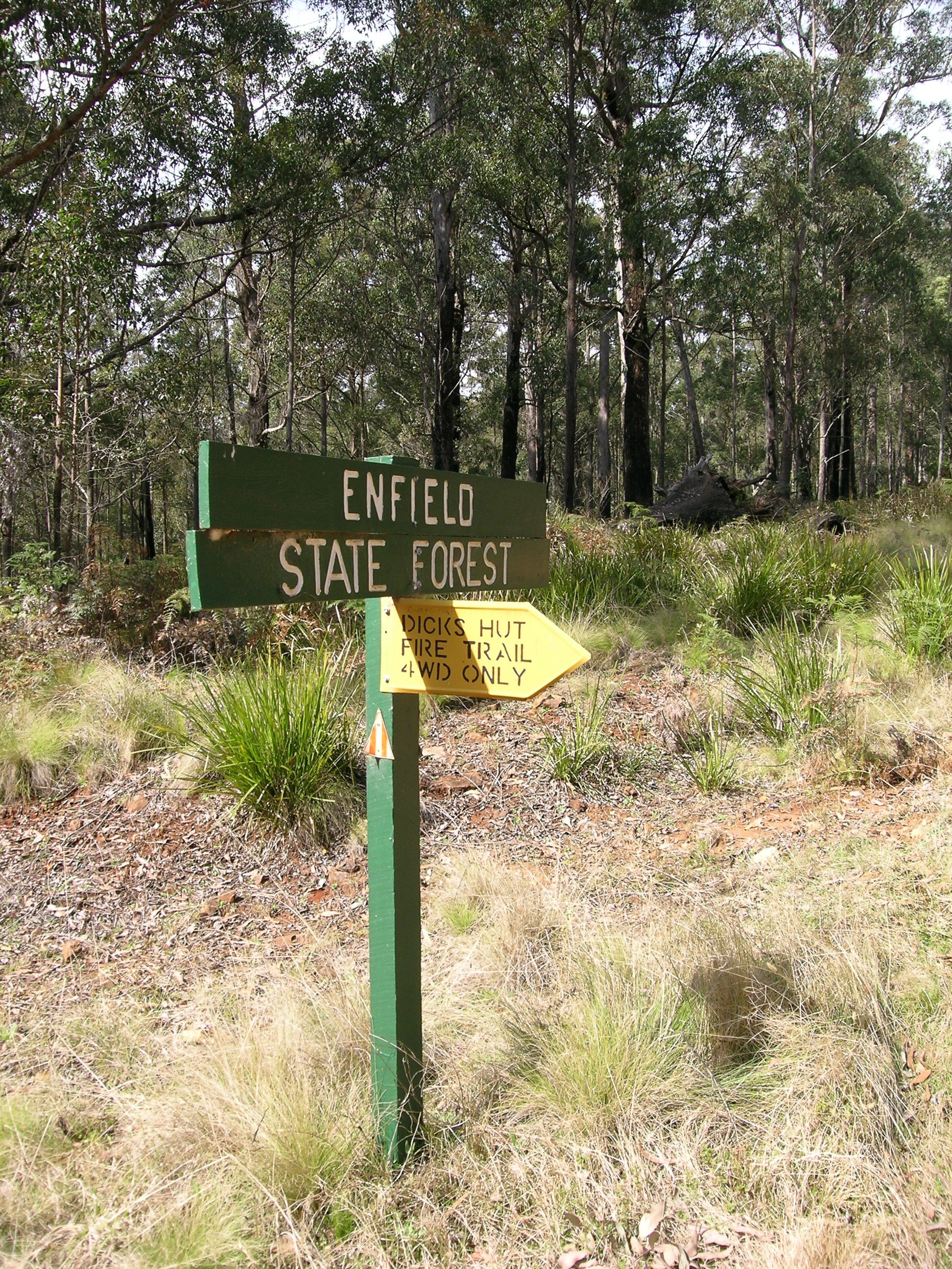 Triangular Bicentennial National Trail sign, Enfield State Forest, Walcha, NSW